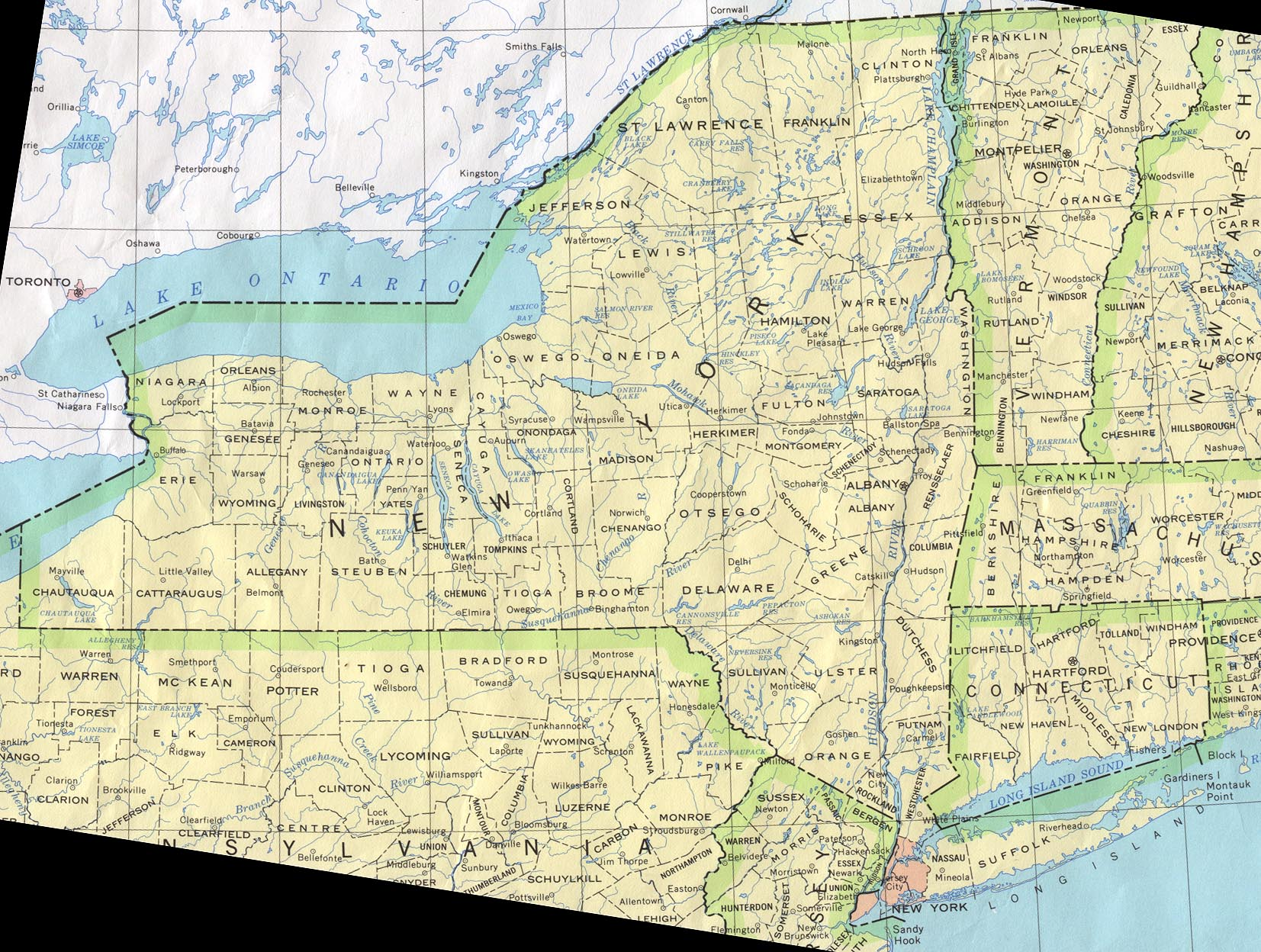 Map of New York (U.S. state)